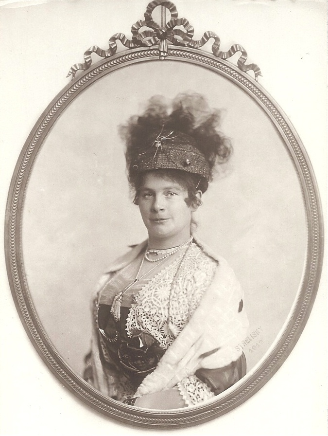 Princess Auguste Marie Louise of Bavaria (Wittelsbach) 1875-1964, wife of Field marshal Archduke Joseph August of Austria